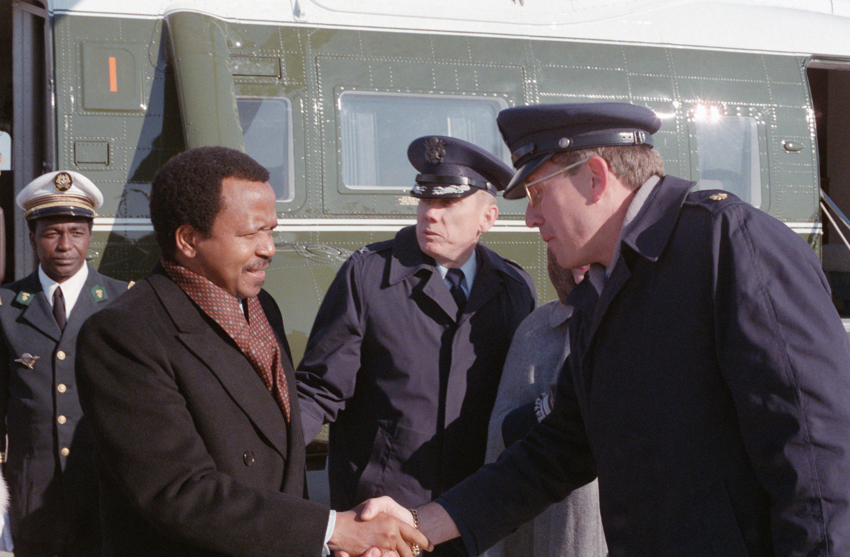 Cameroon President Paul Biya shakes hands with Major (MAJ) Edward R. Ophof before departing the base. Colonel (COL) Carl W. Granberry looks on in the background. Location: ANDREWS AIR FORCE BASE, MARYLAND (MD) UNITED STATES OF AMERICA (USA)